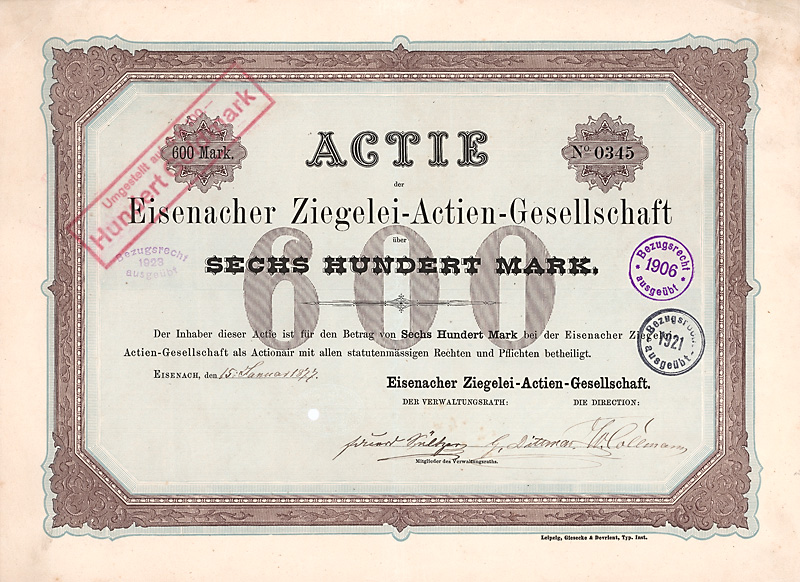 Share of the Eisenacher Zeigelei-AG, issued 15. January 1877